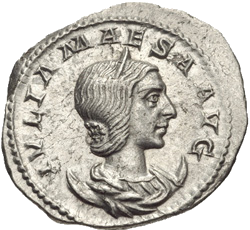 A Roman antoninianus depicting Julia Maesa